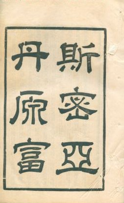 斯密亞丹所著《原富》之封面，嚴復譯，光緒辛丑版/The cover of Classical Chinese Translation of "The Wealth of Nations" (1901 Edition)